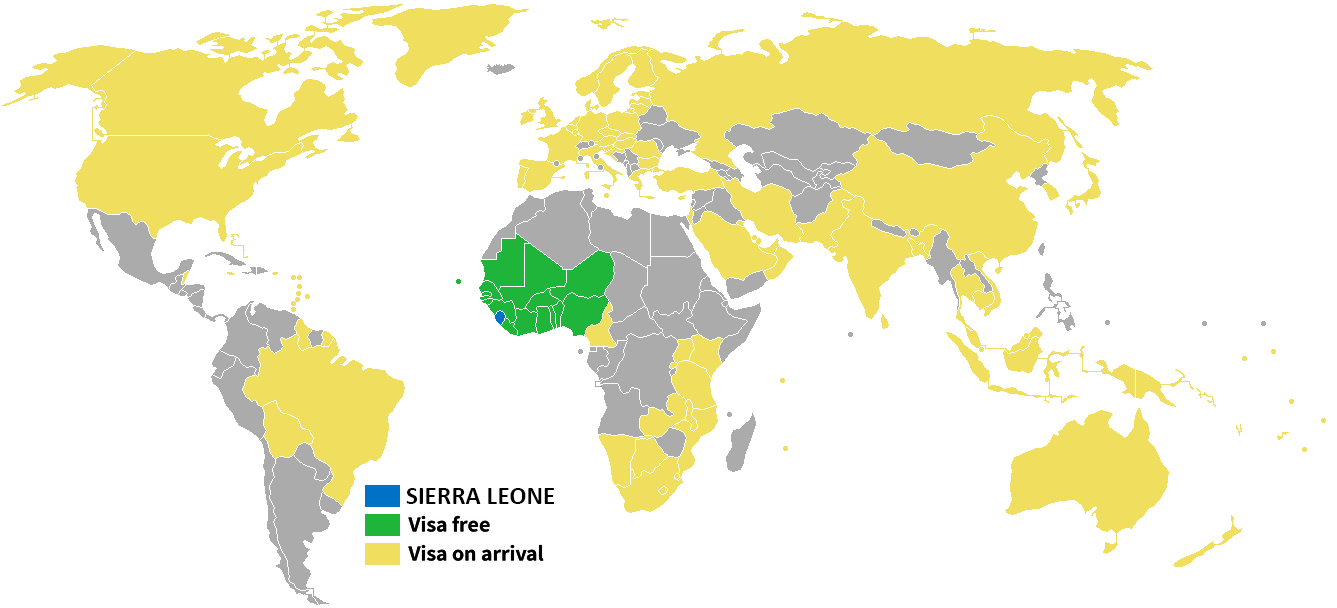 Visa policy of Sierra Leone Sierra Leone Visa free Visa on arrival